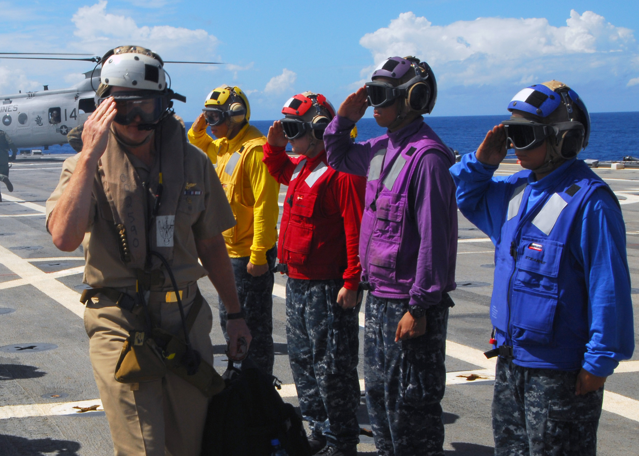 EAST CHINA SEA (Oct. 11, 2011) Sideboys salute prospective commanding officer, Capt. Michael Wettlaufer, as he arrives aboard the amphibious transport dock USS Denver (LPD 9) for the first time. Denver is part of the forward-deployed Essex Amphibious Ready Group and is underway conducting operations in the western Pacific Ocean. (U.S. Navy photo by Mass Communication Specialist 2nd Class Bryan Blair/Released)